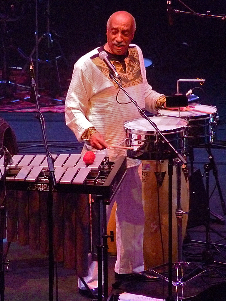 Ethio-jazz legend Mulatu Astatke performs with the Heliocentrics at the Barbican Centre, London, September 29th 2010